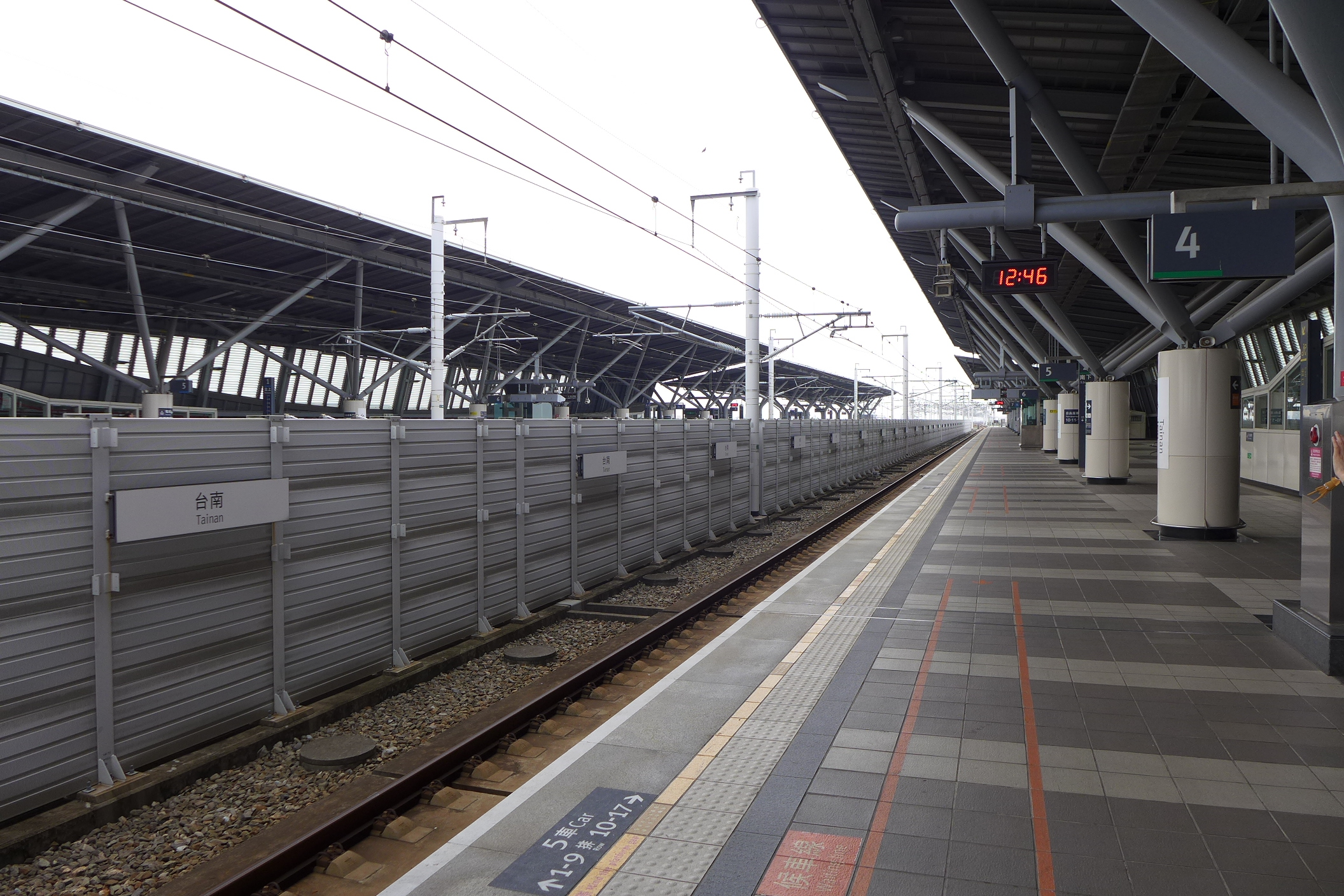 Platform 2, Taiwan High Speed Rail Tainan Station.